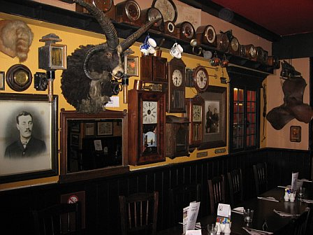 Inside the Sheep Heid Inn, Duddingston